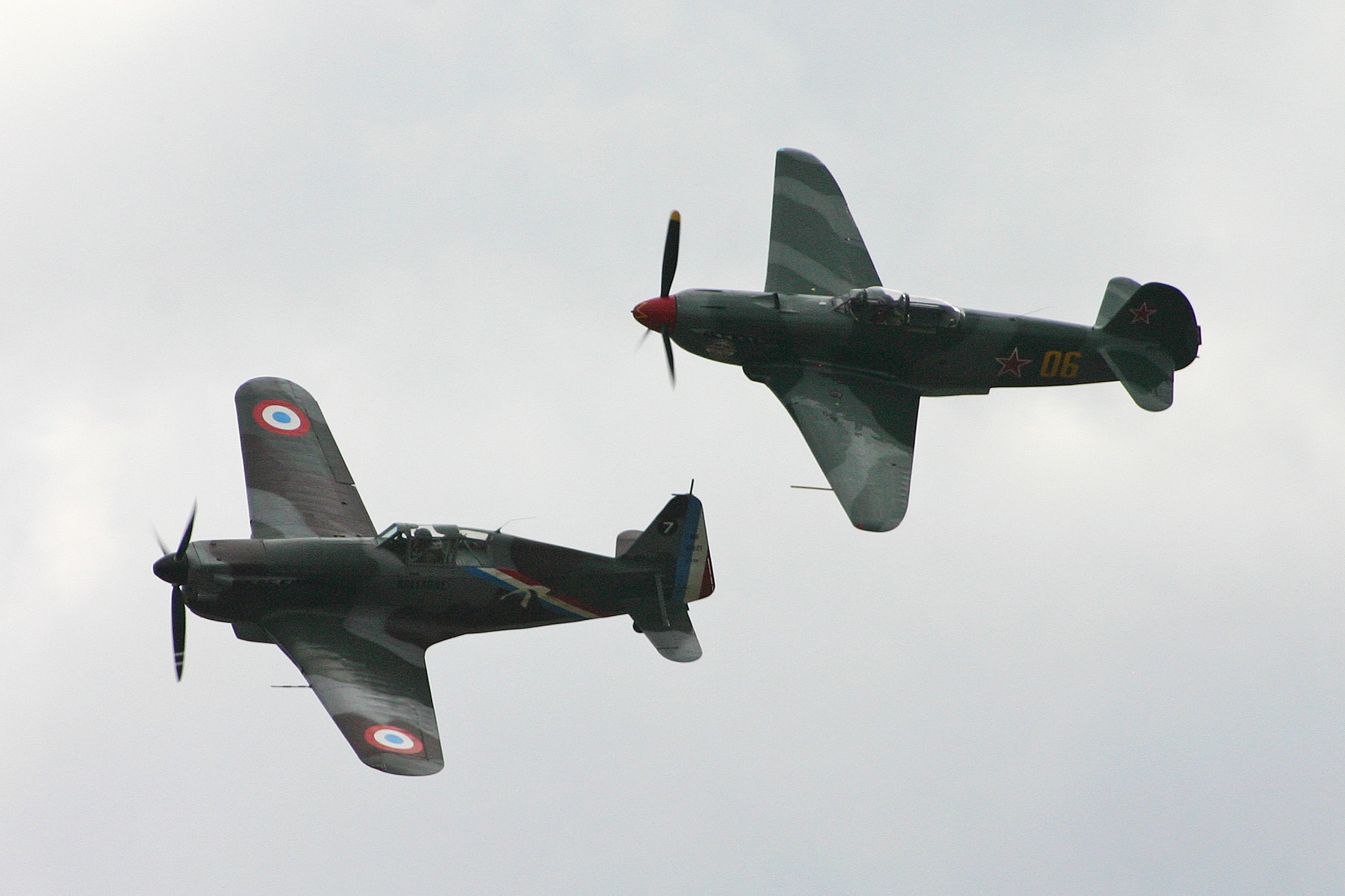 Terrible lighting but a fantastic comparison! Both aircraft are single seat WW2 fighters and both are a similar size, but the Morane was outdated at the start of the war, while the Yak was top class in 1945. The Morane is actually Swiss built D-3801 'HB-RCF' (msn 194), while the Yak is a new build 9UM 'RA 3587K' (msn 0470406). Flying Legends 2011. Duxford. 10-7-2011 2011 Flying Legends. Duxford. 10-7-2011